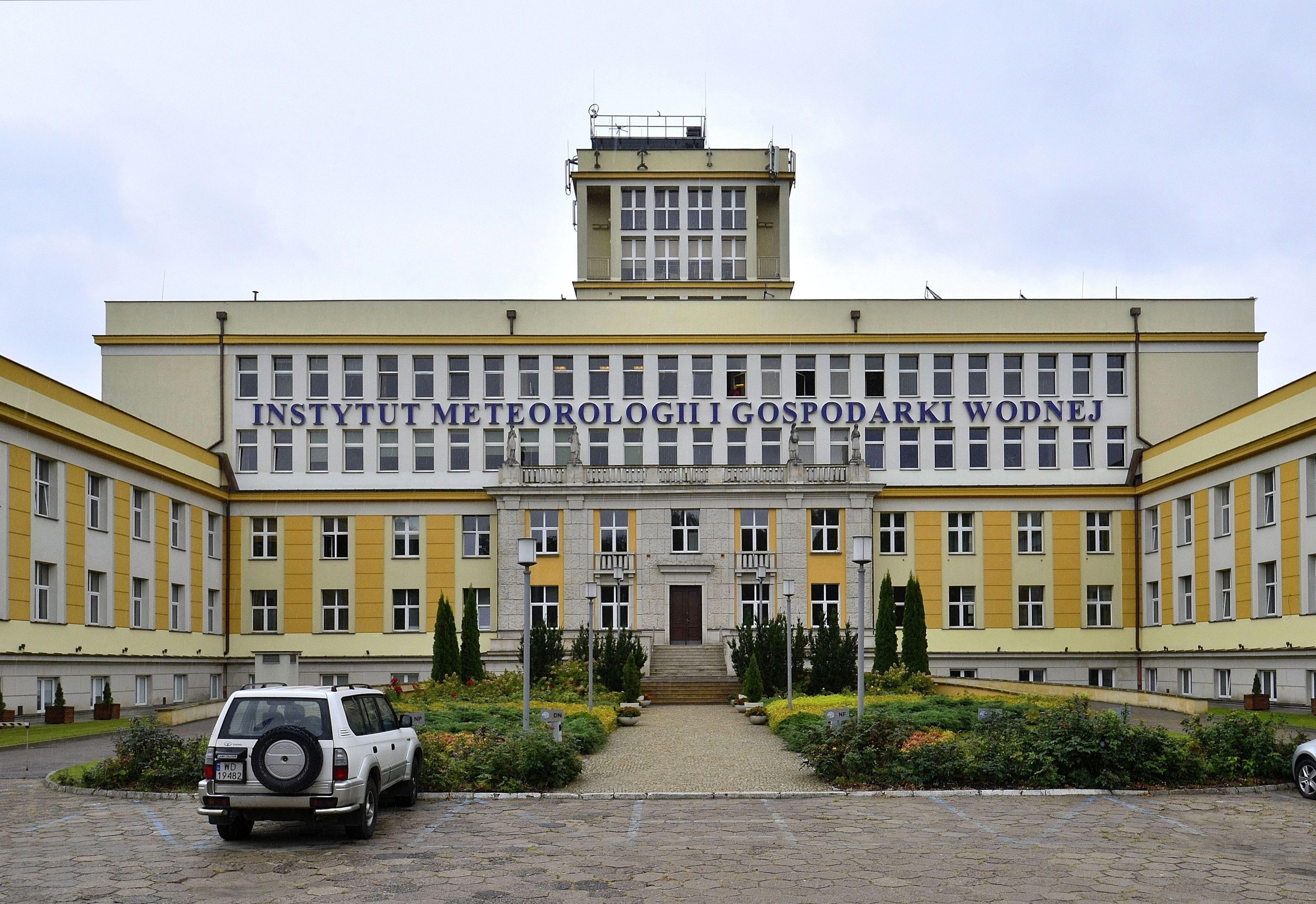 Institute of Meteorology and Water Management in Warsaw